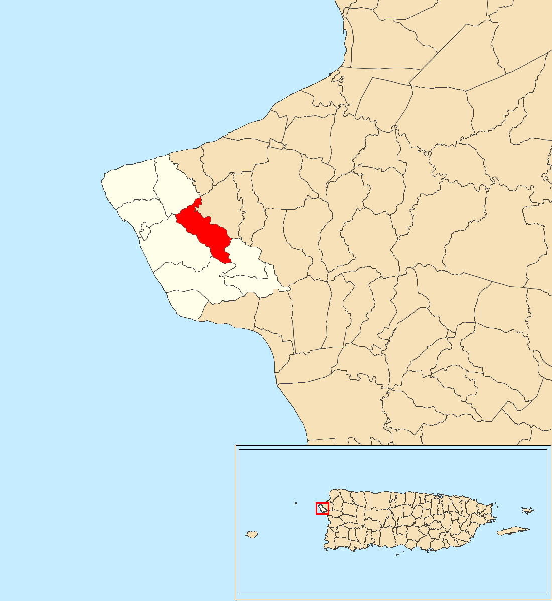 Cruces, Rincón, Puerto Rico locator map